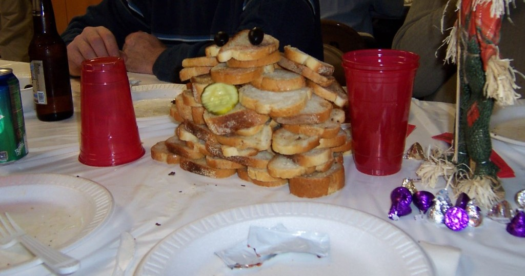 two people's bread slices piled up after eating at a beefsteak banquet